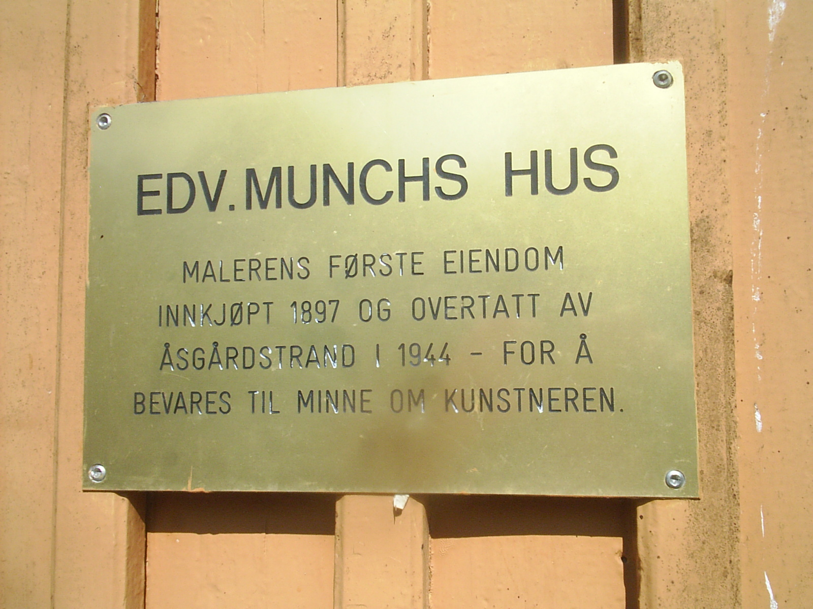 The signboard on Edvard Munch's house in Åsgårdstrand, Norway.